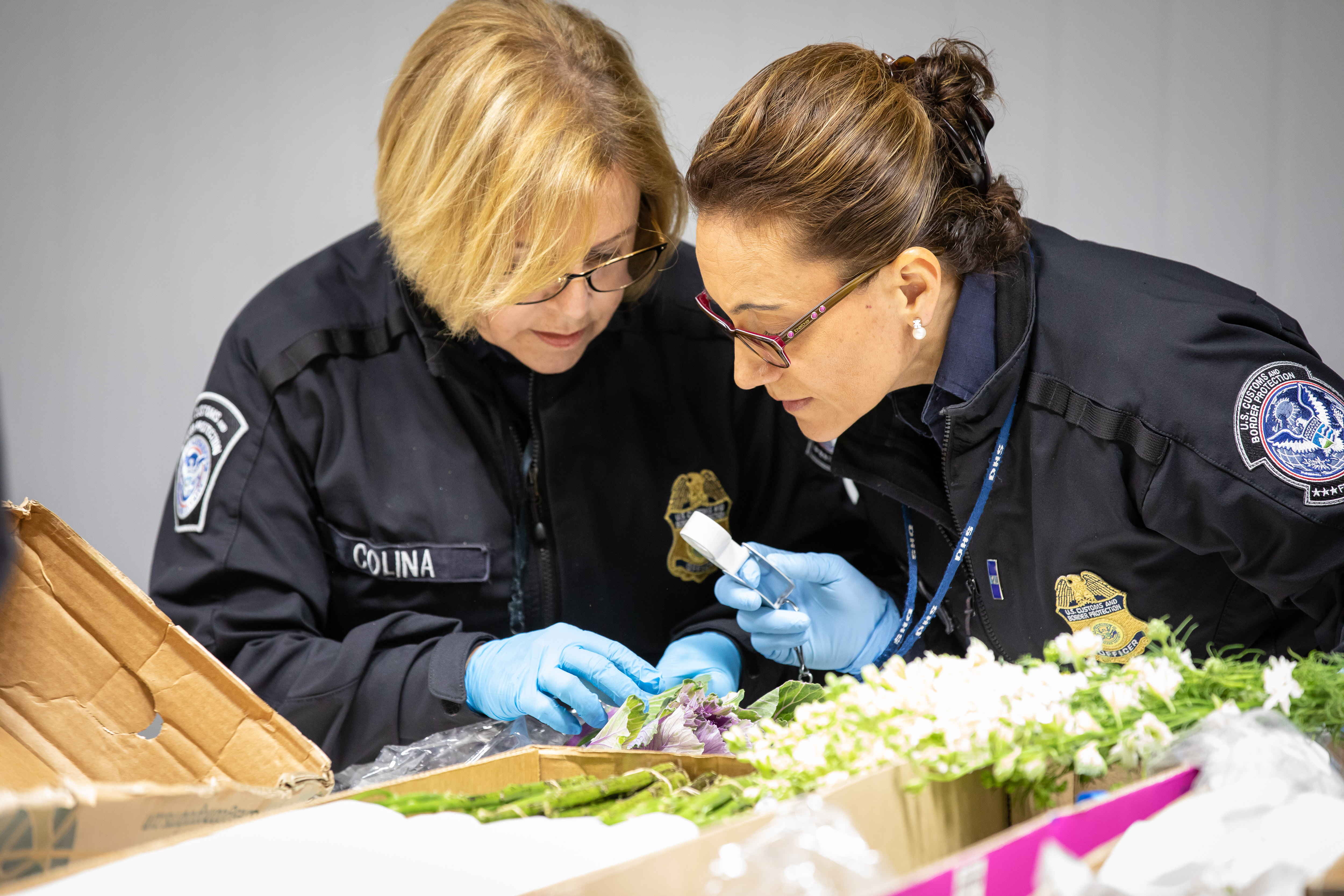 U.S. Customs and Border Protection agriculture specialists have been inspecting rising numbers of cut flower shipments prior to Valentine's Day in Miami, Florida, February 11, 2019. Miami receives 90% of the cut flowers for the entire United States. Photo by Ozzy Trevino, U.S. Customs and Border Protection